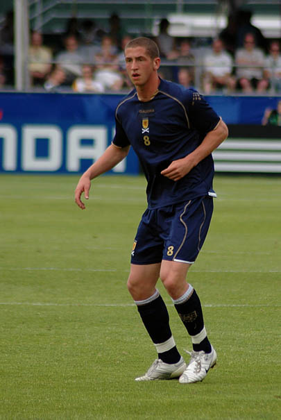 Photo of soccer player, Calum Elliot. Wilson Wong photo.